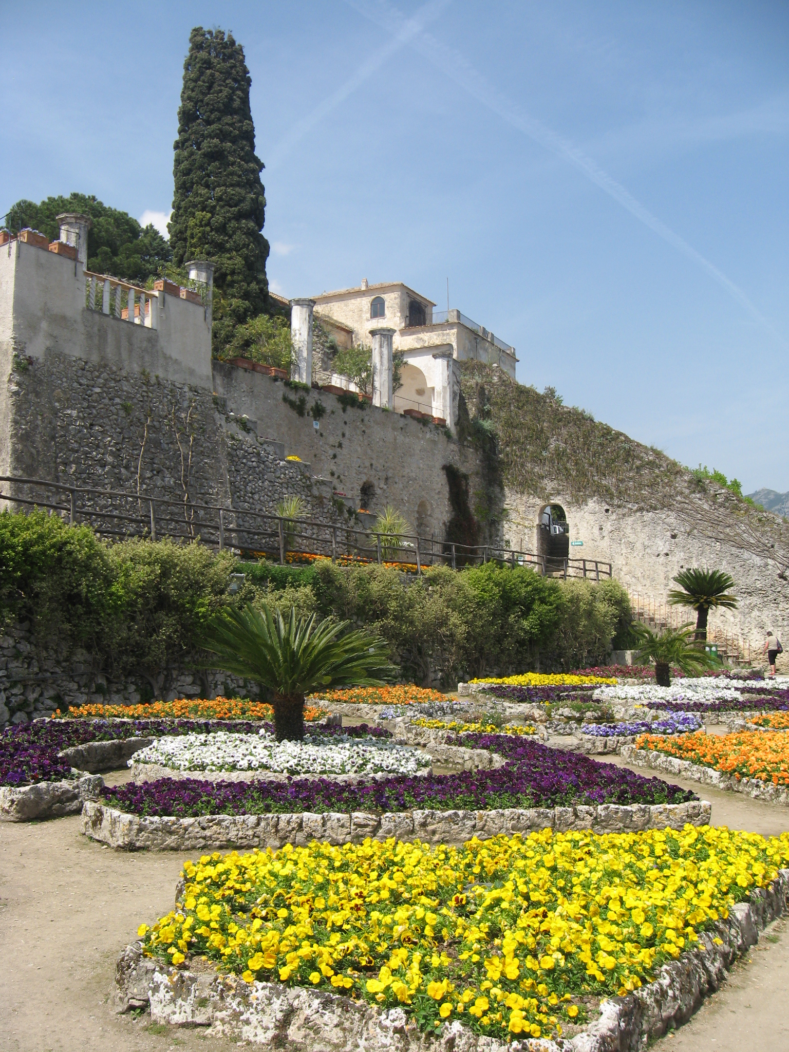 Ravello: Gardens of Villa Rufolo